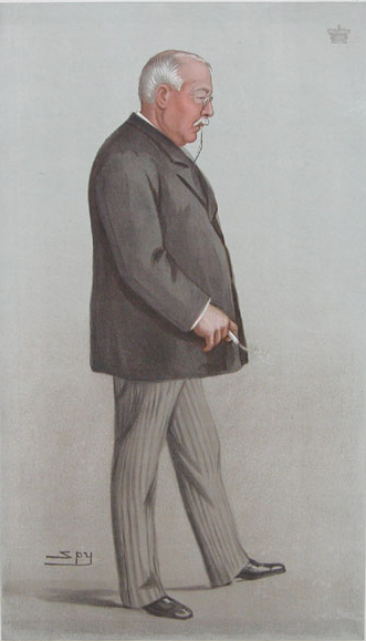 Caricature of Evelyn Baring, 1st Earl of Cromer. Caption read "The maker of modern 'Egypt'".